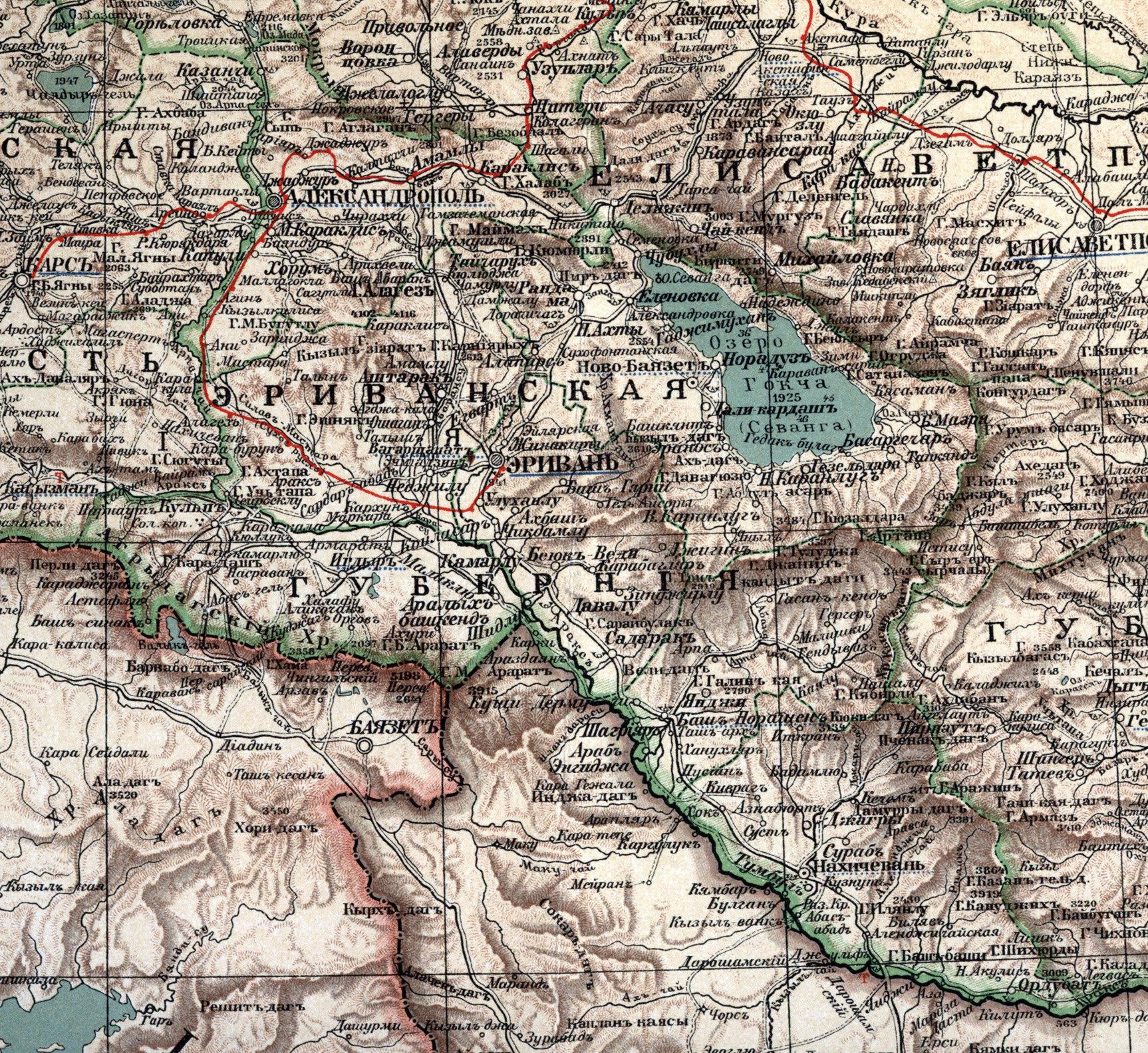 Map of Erivan Governorate (Russian Empire)